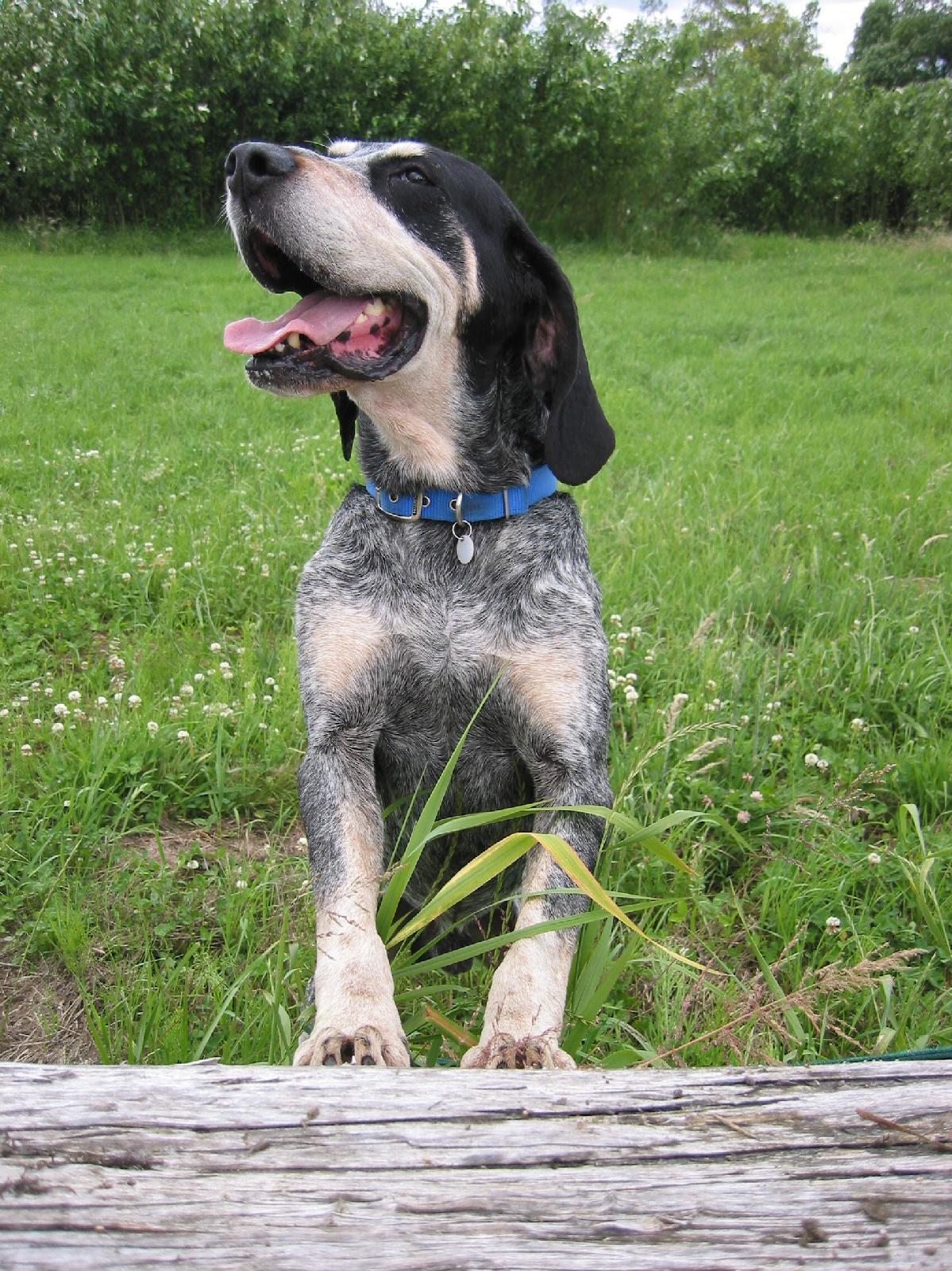 Grand Bleu de Gascogne kind of dog